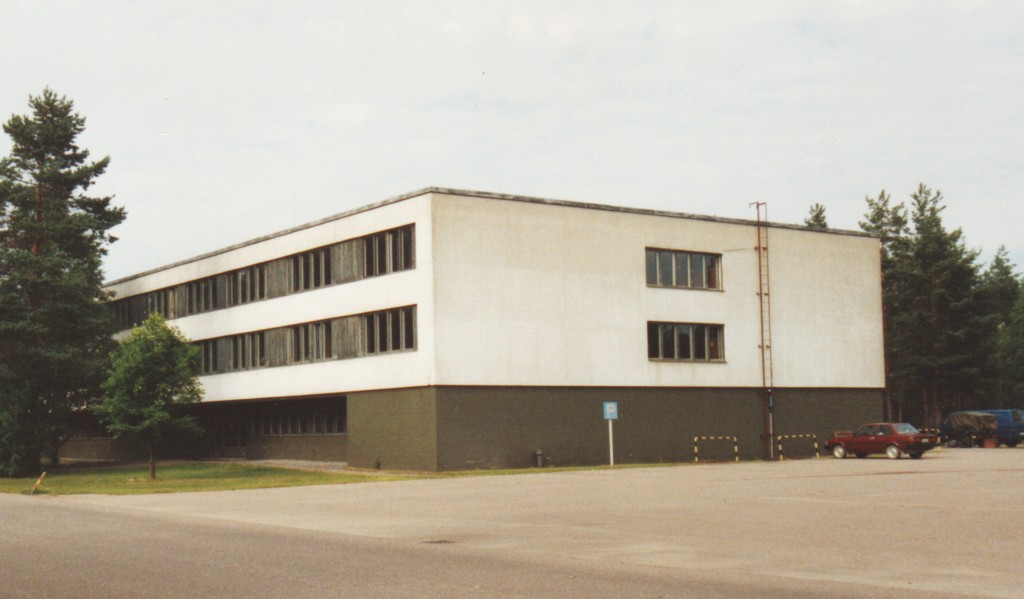 Barracks of non-commissioned officer-school in Niinisalo garrison in city of Kankaanpää, Finland